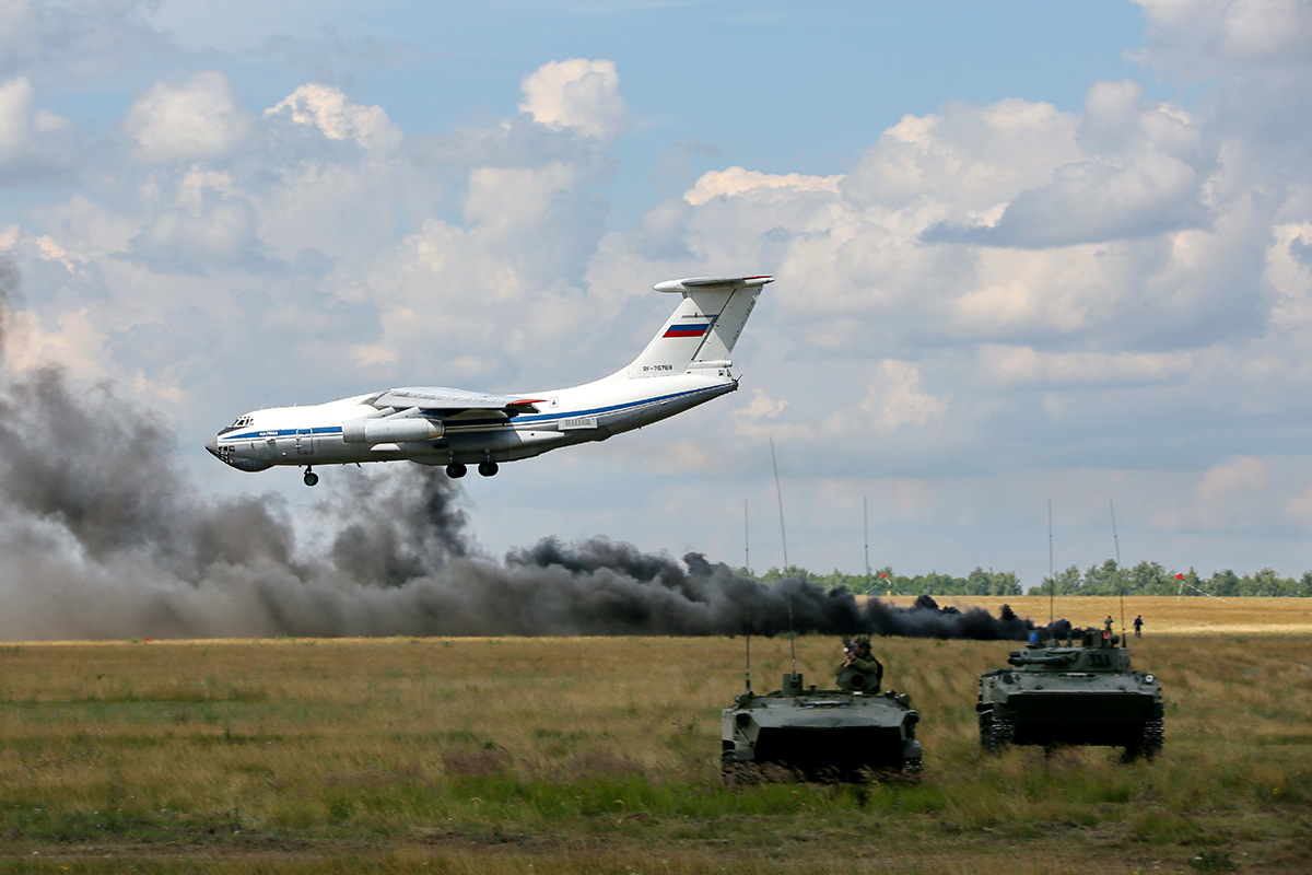 Ilyushin Il-76MD. Airborne exercise of the 106th Guards Airborne Division of the Russian Federation.